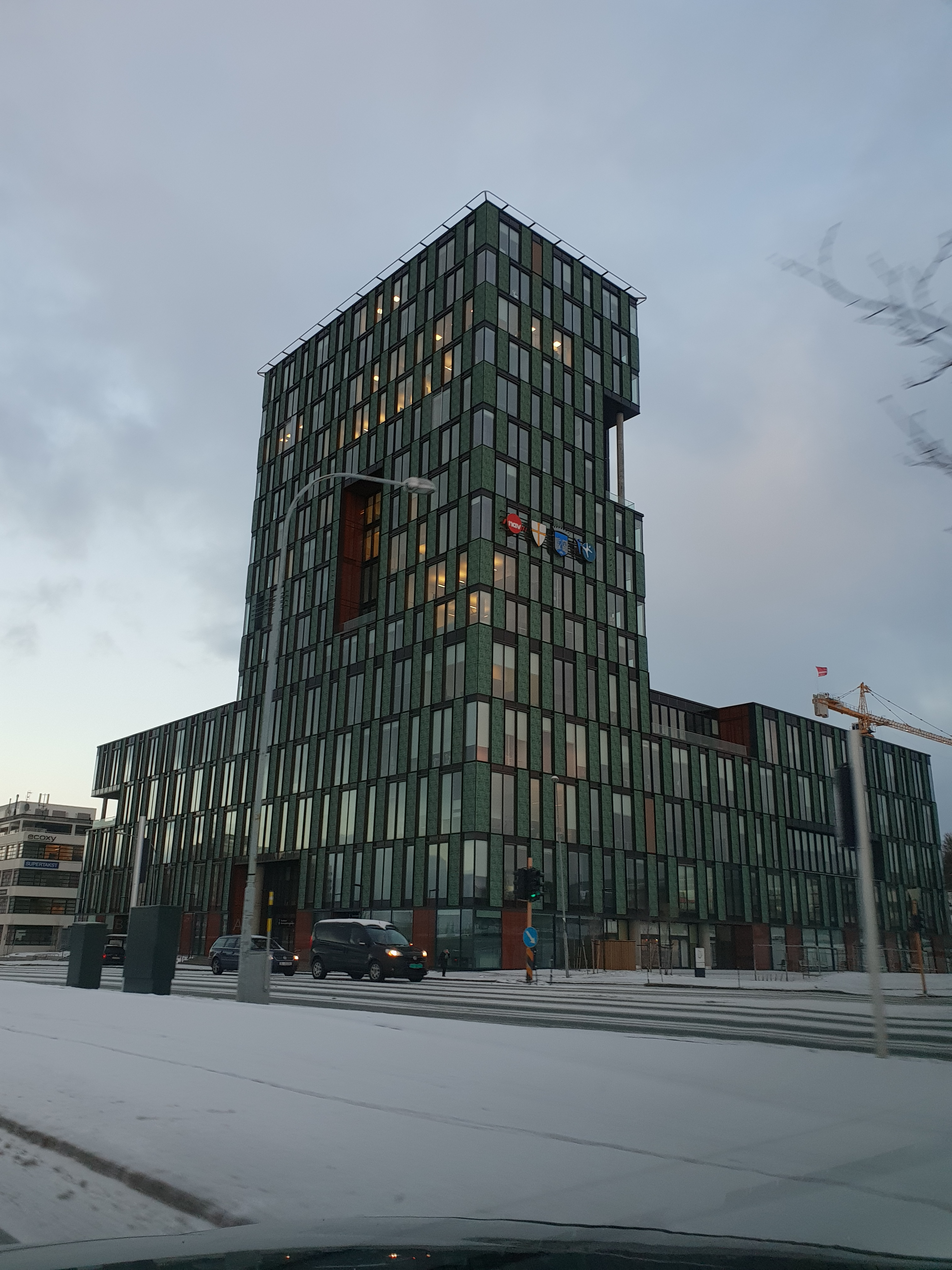 Trondheimsporten fra retning Sluppen.